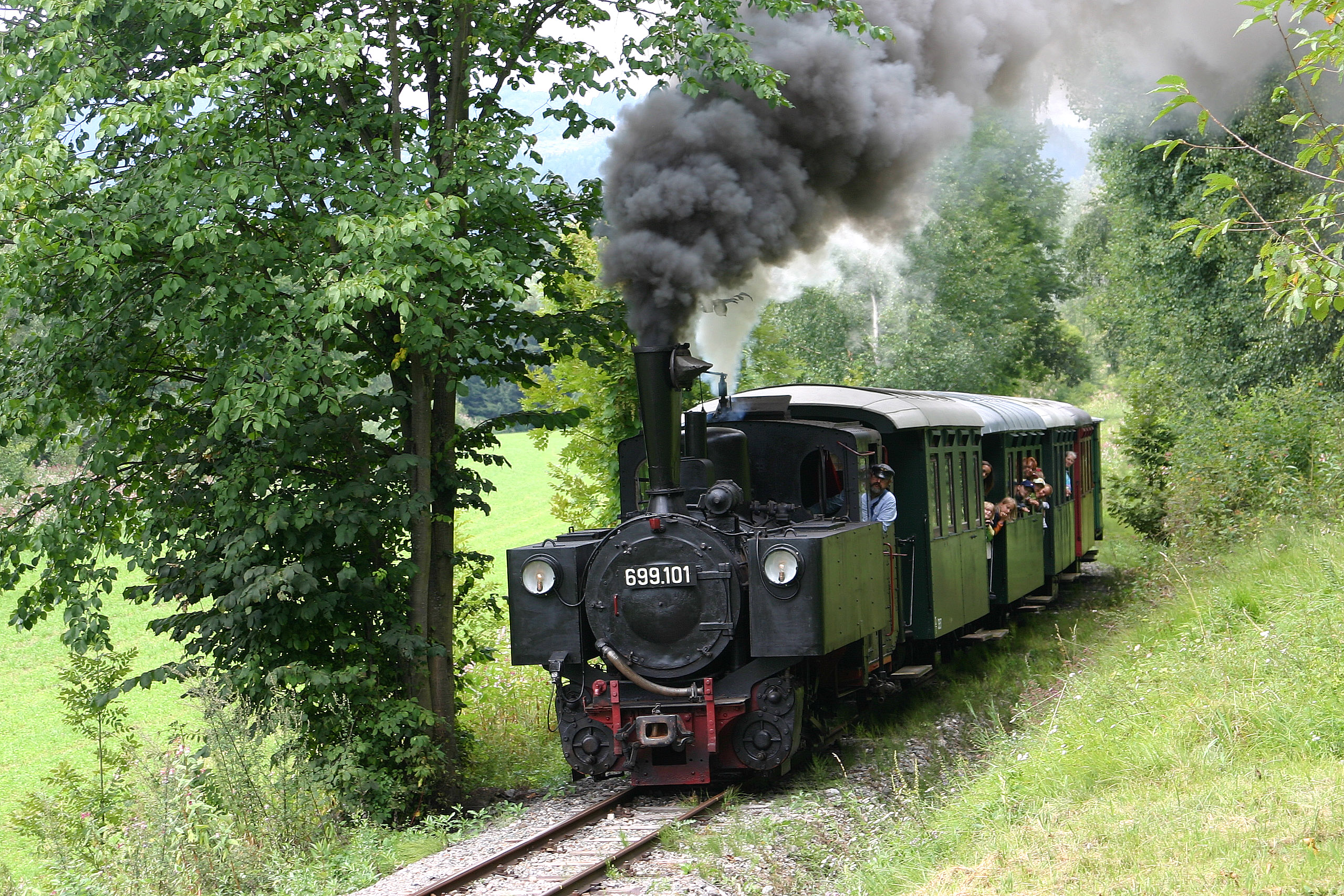 Train with 699.101 on the Gurktalbahn heritage railway in Carinthia. Locomotive HF160D Class, built by Franco Belge, nr. 2817, 1944